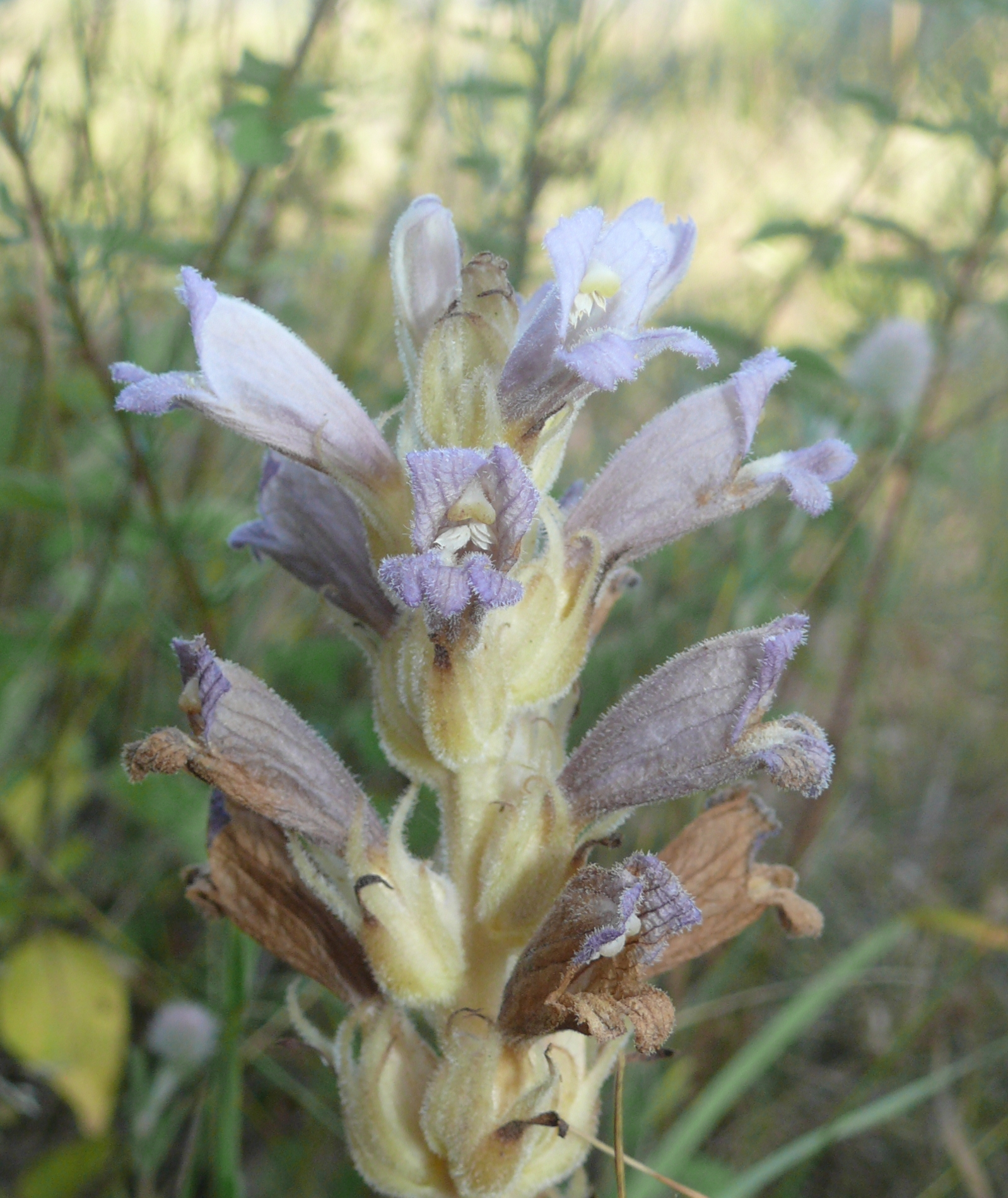 Orobanche arenaria, Mainfranken